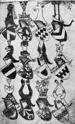 Folio 67v from Armorial Bellenville